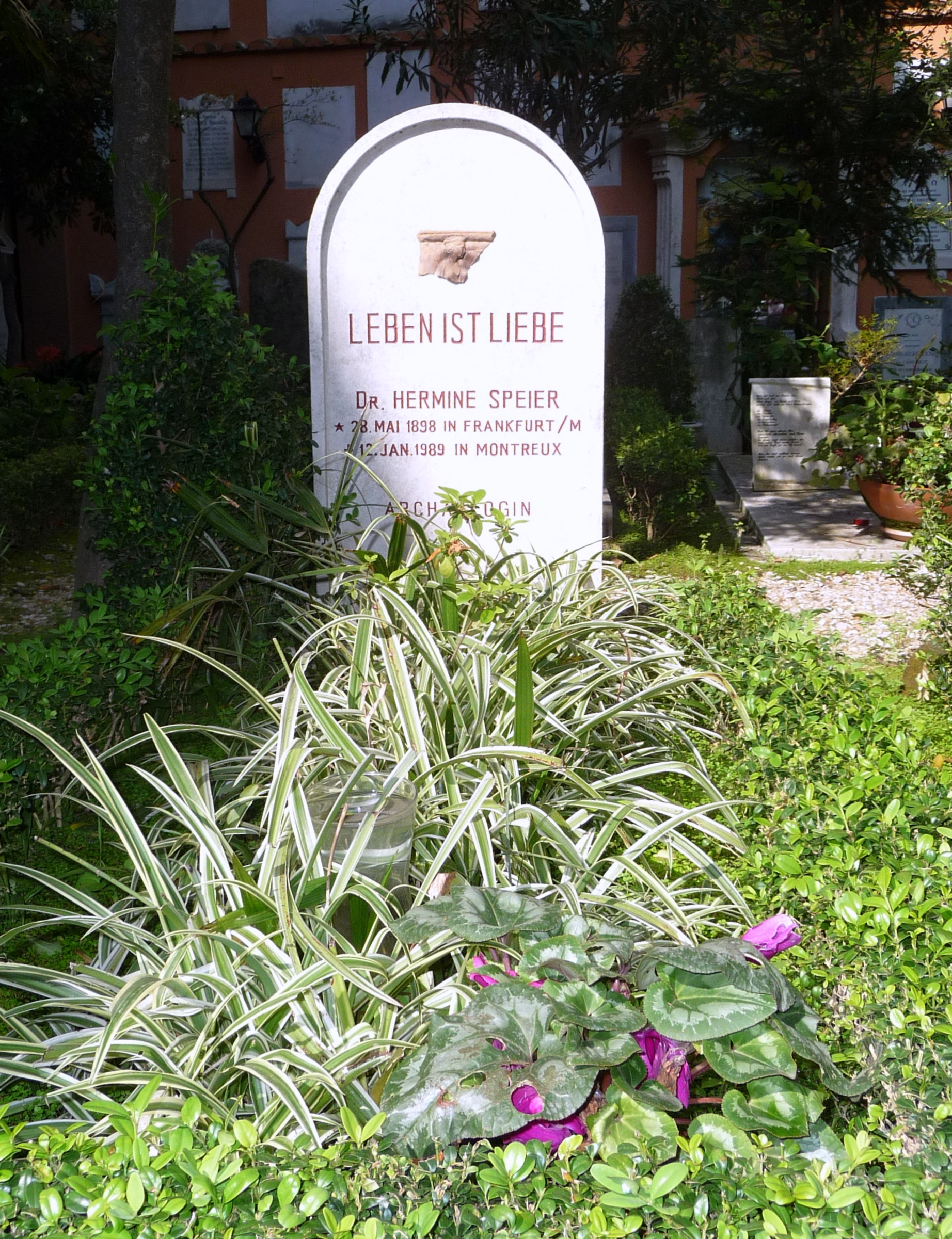 Gravestone of Hermine Speier; Campo Santo Teutonico in Rome